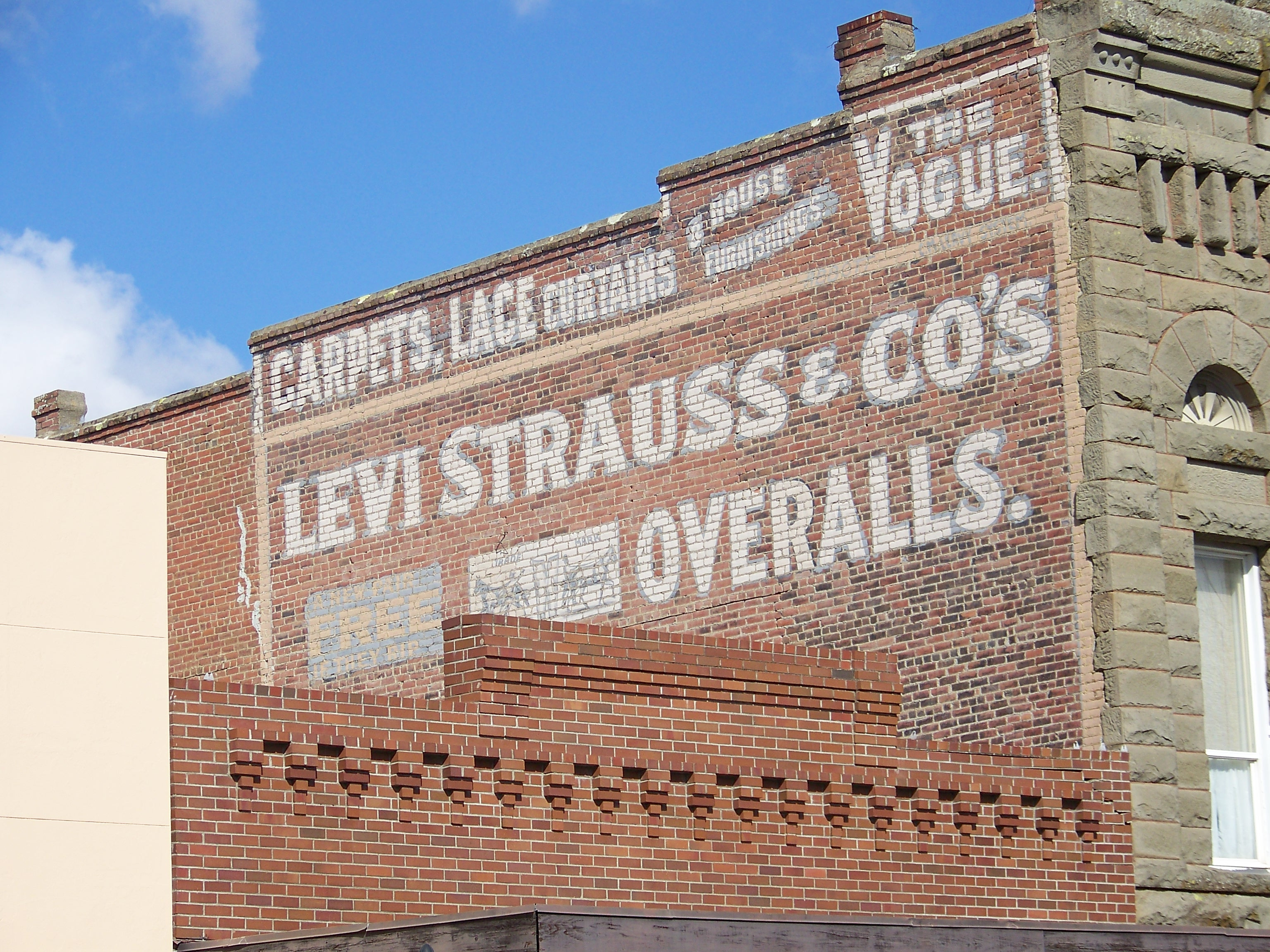 A Levi Strauss advertising sign painted on a brick wall in Woodland, California